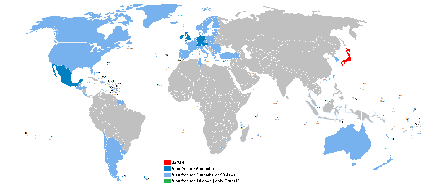 map showing countries with Visa exemption eligibility to Japan